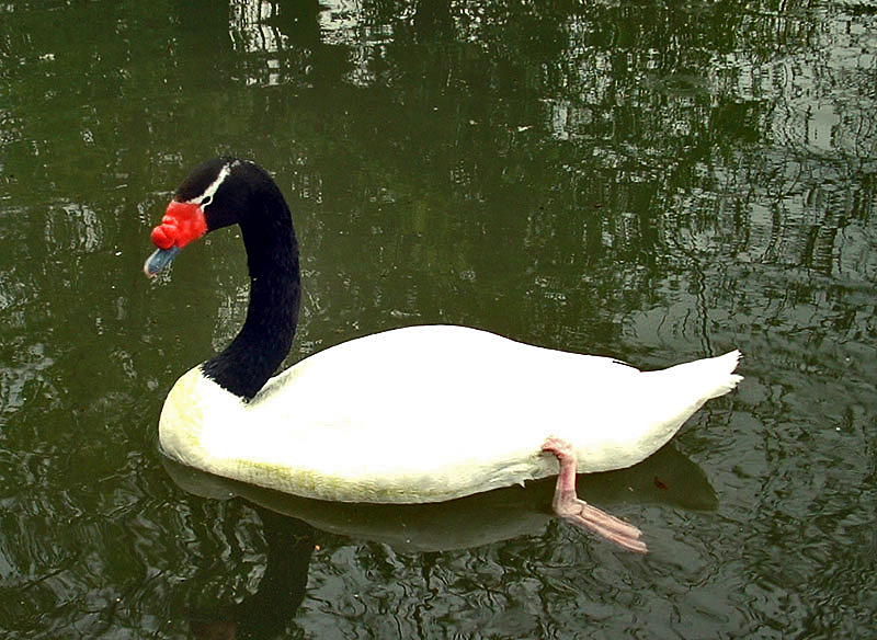 Cygnus melancoryphus